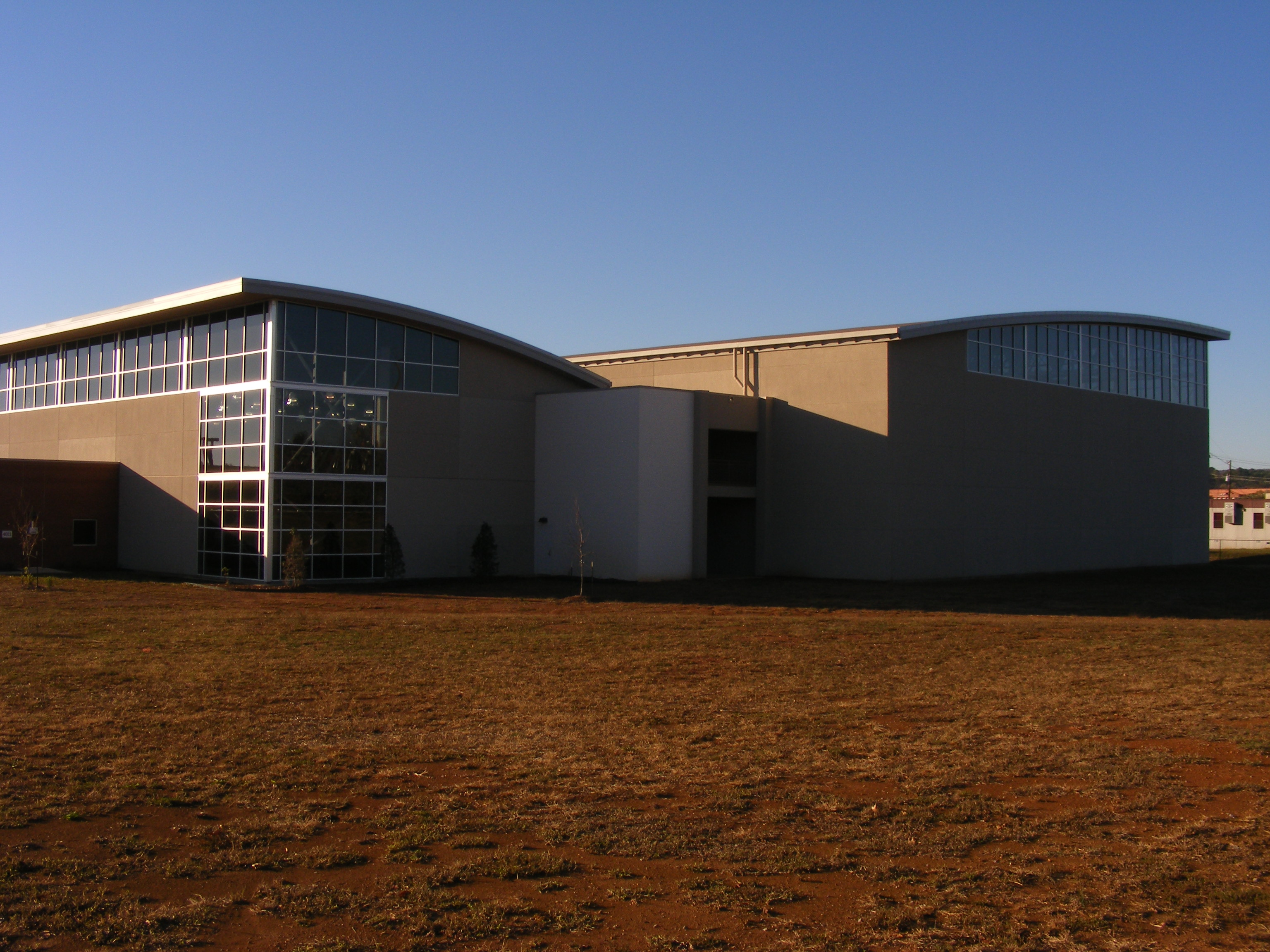 AAMU Wellness Center